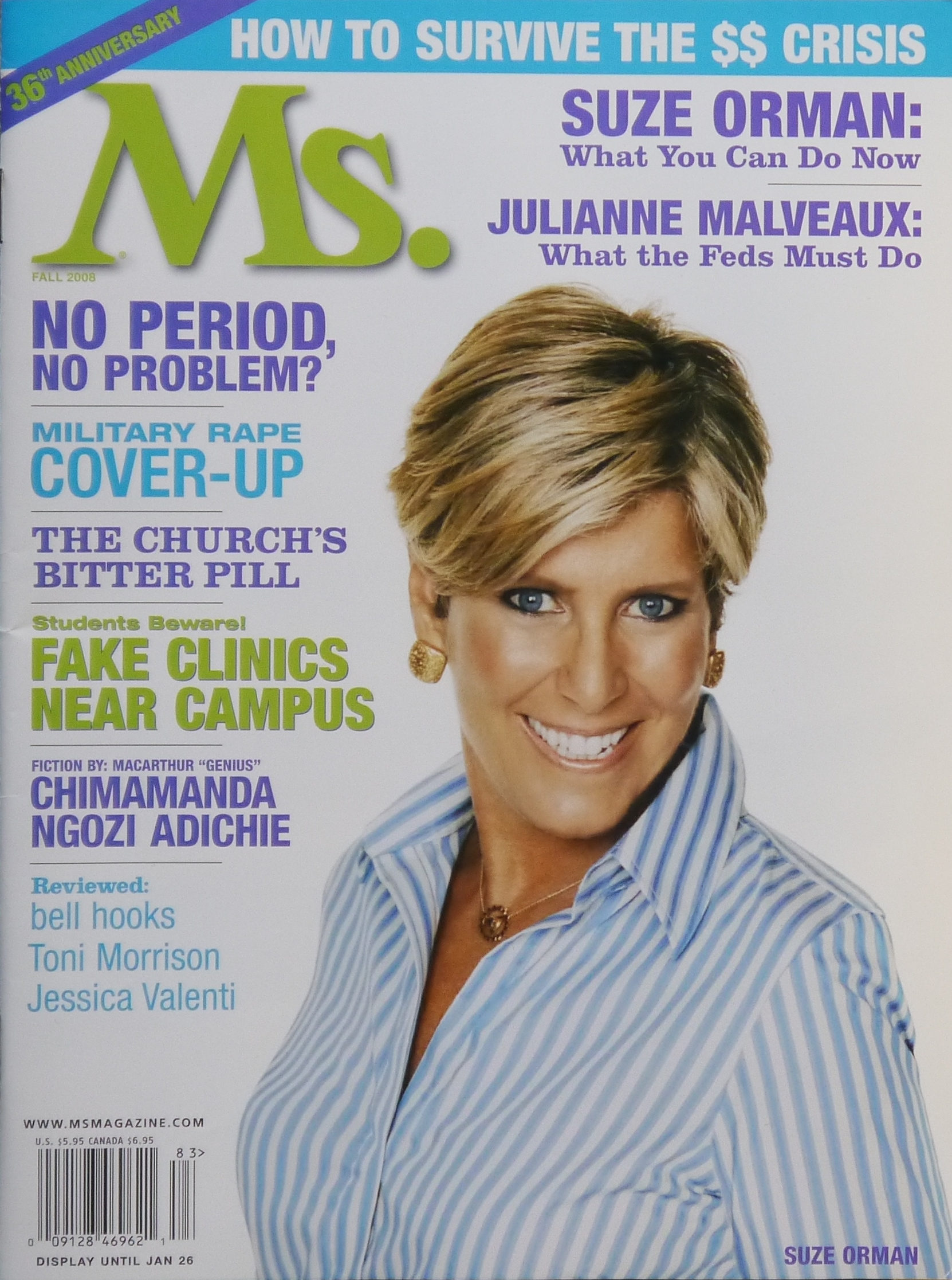 Ms. magazine, Fall 2008, featuring Suze Orman